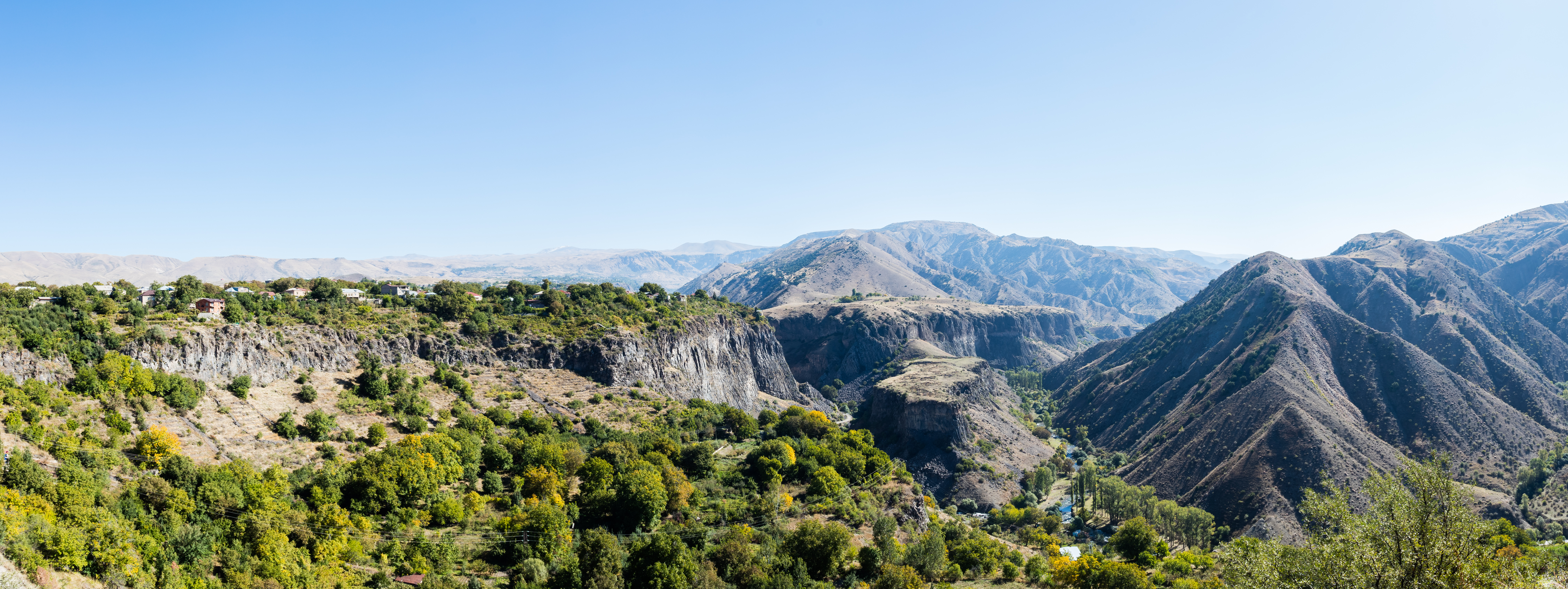 Garni Valley, Armenia